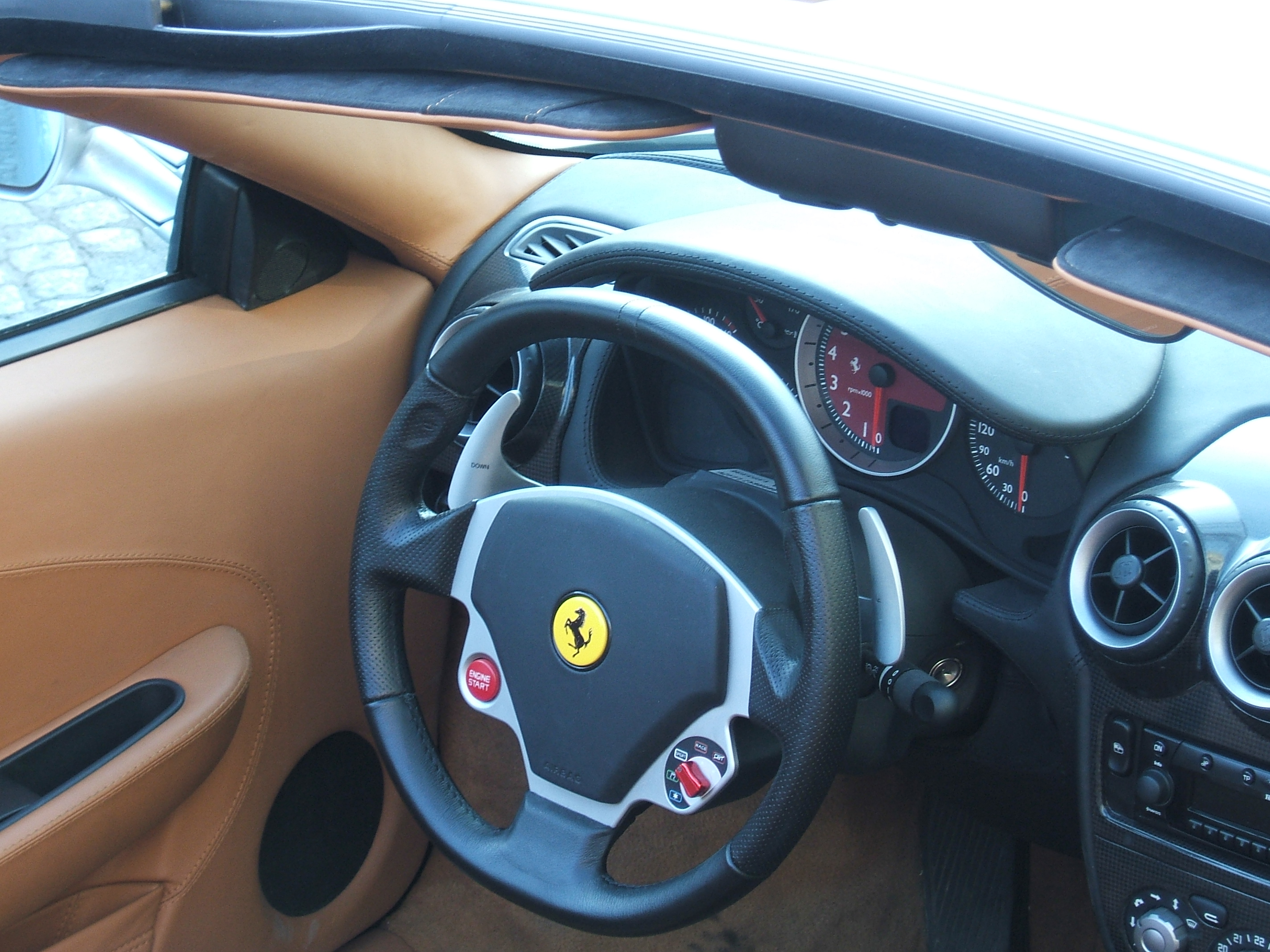 Dashboard of a Ferrari F430.